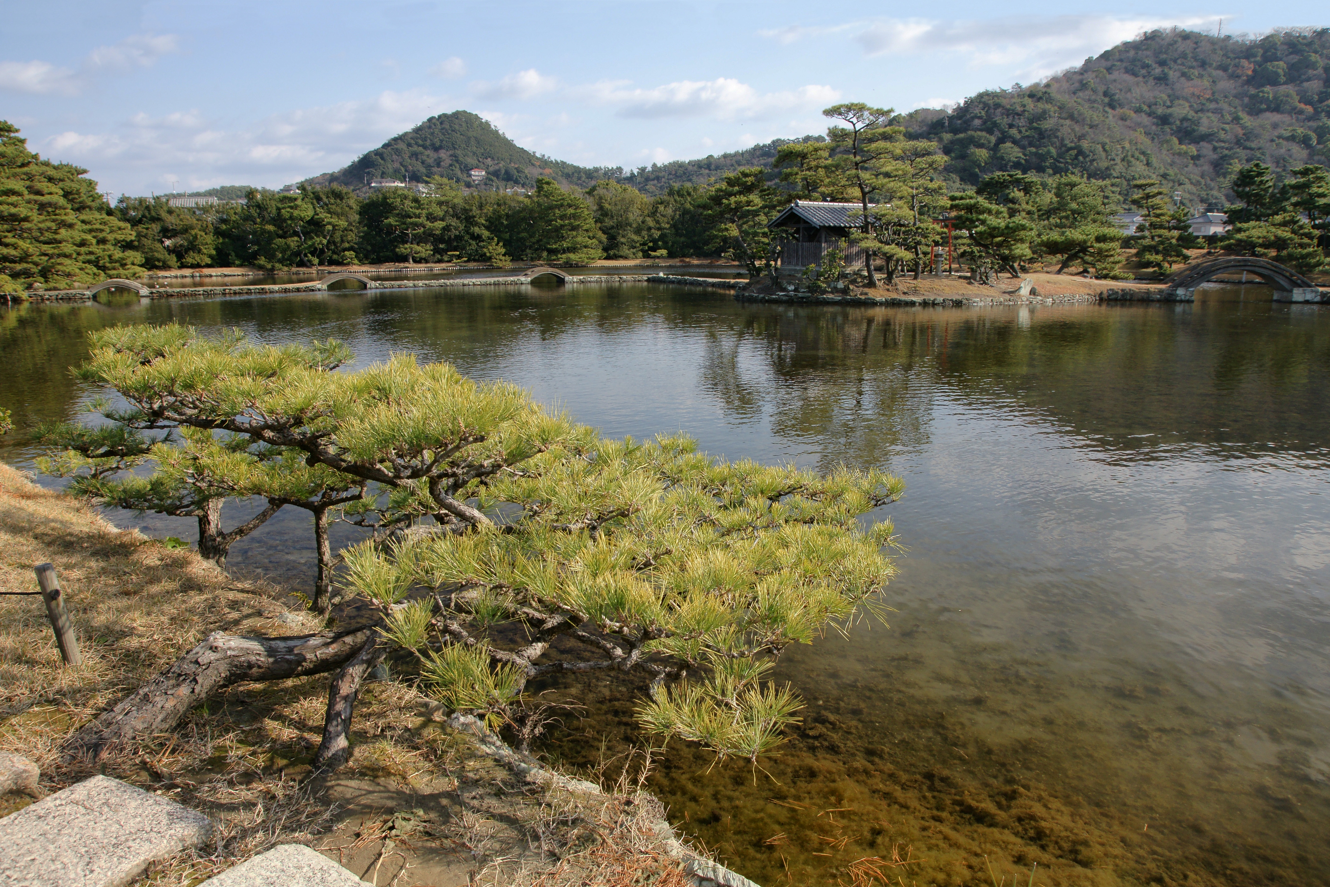 Yosuien, Wakayama, Wakayama prefecture, Japan